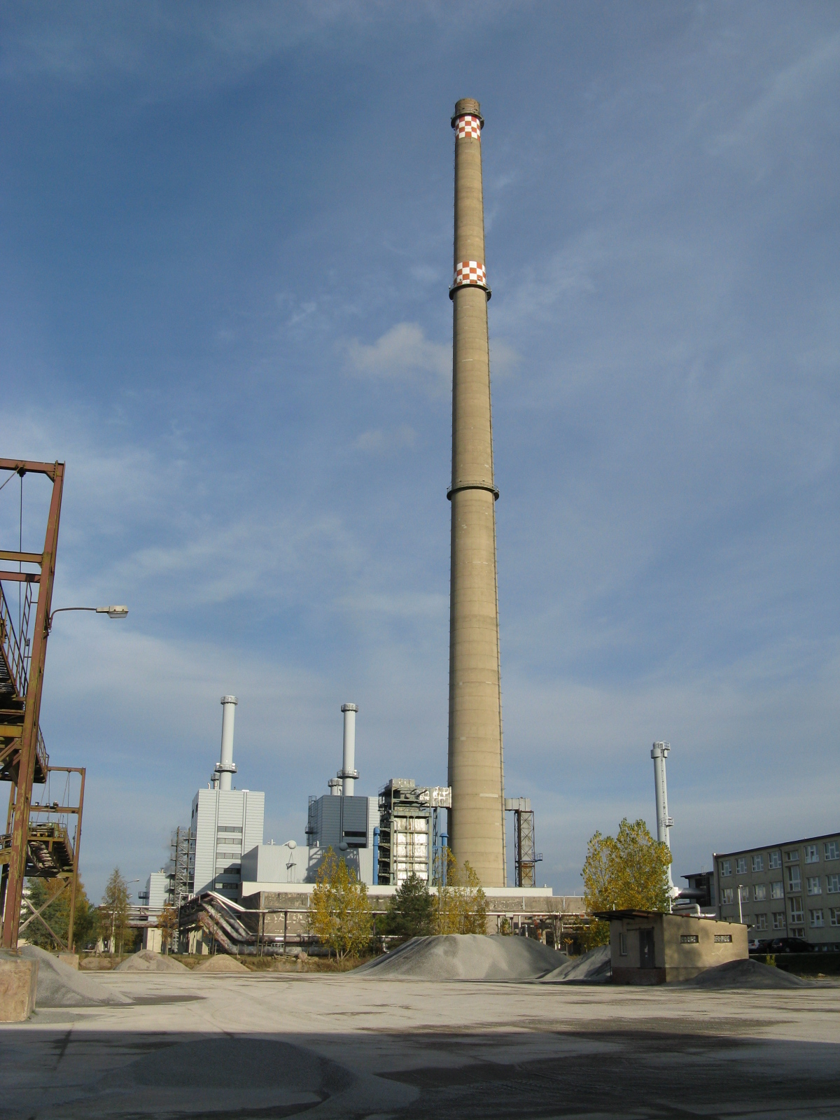 Combined heating and power plant Schwerin-Süd in Schwerin, Germany